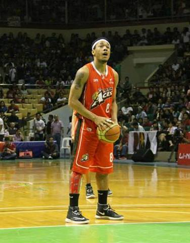 Calvin.